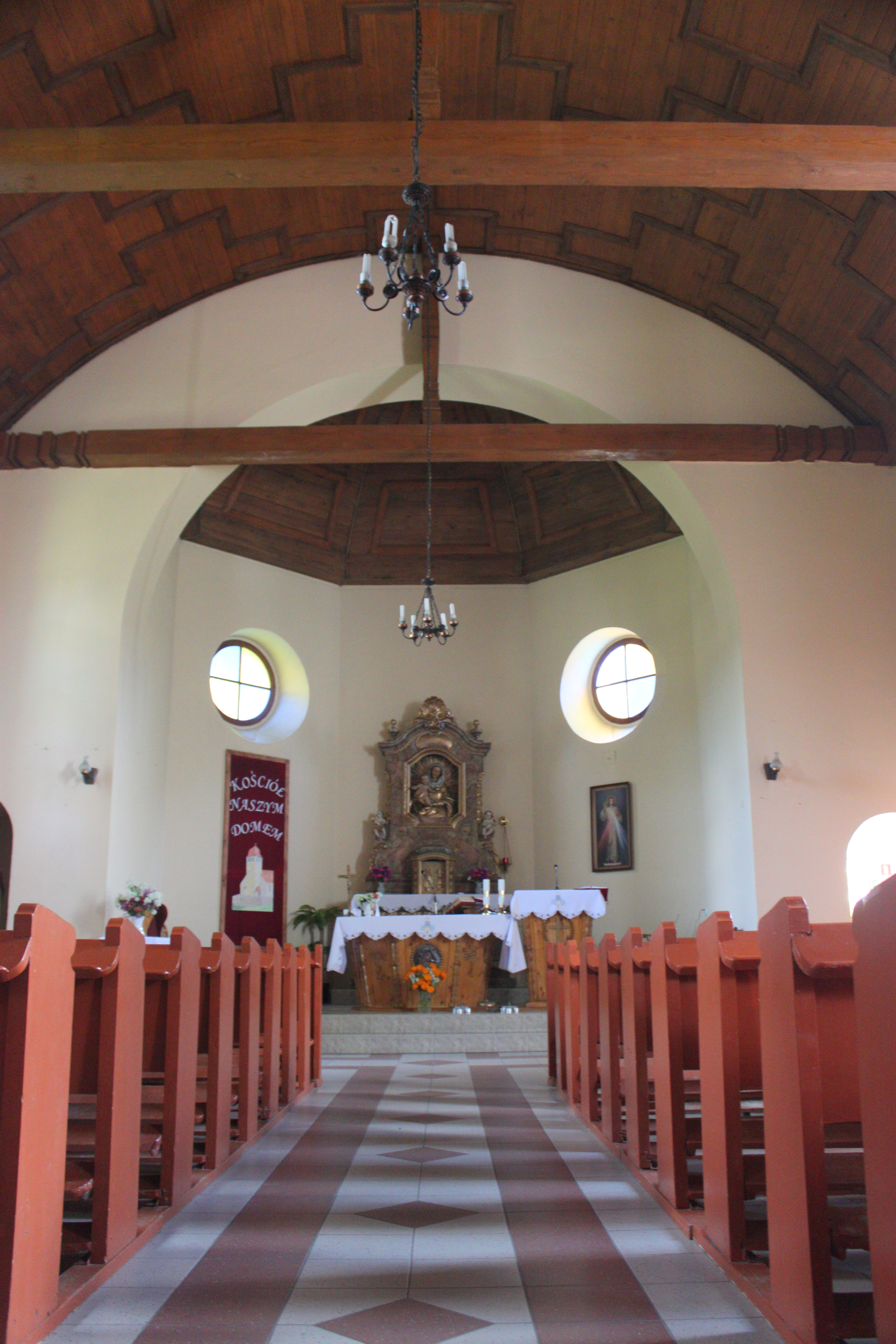 Mater Ecclesiae church in Baranowo.